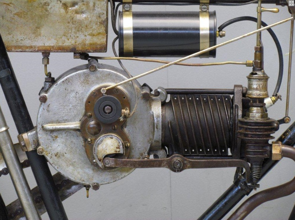 Constantin et Cabannes motorcycle engine from 1900